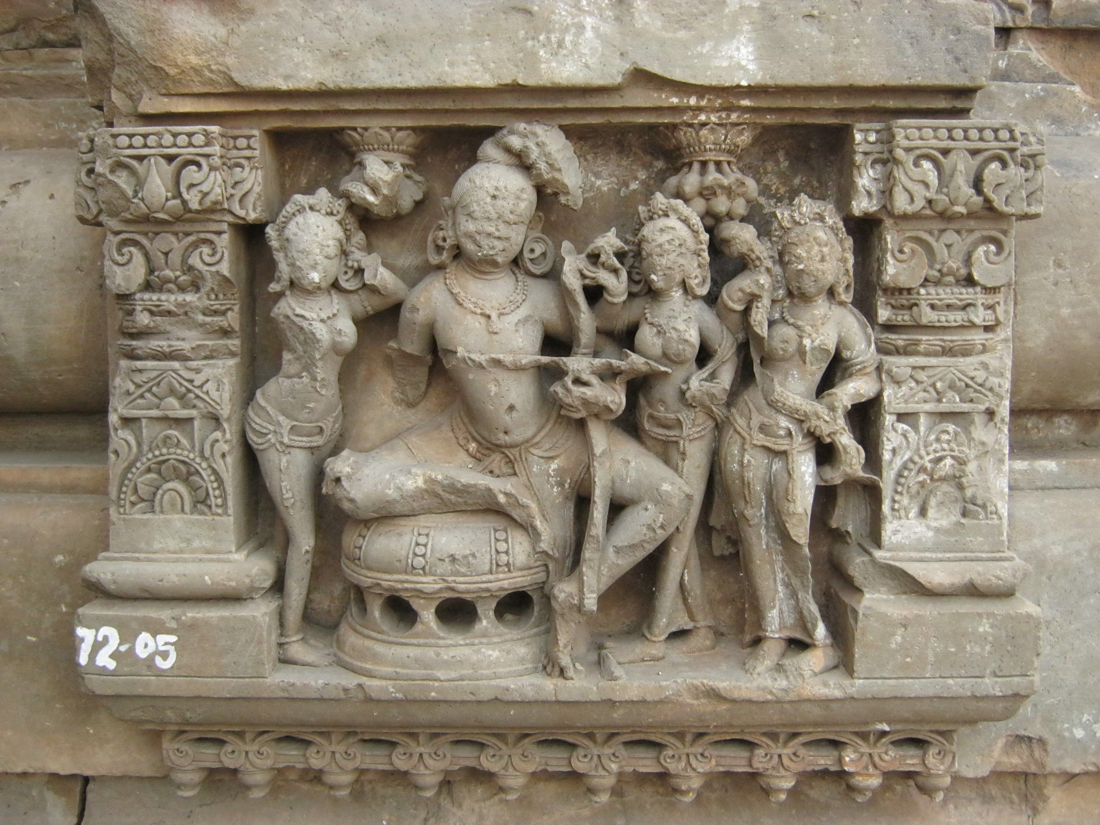 Hindu God n Goddesses on the wall of Harshad Mata Temple